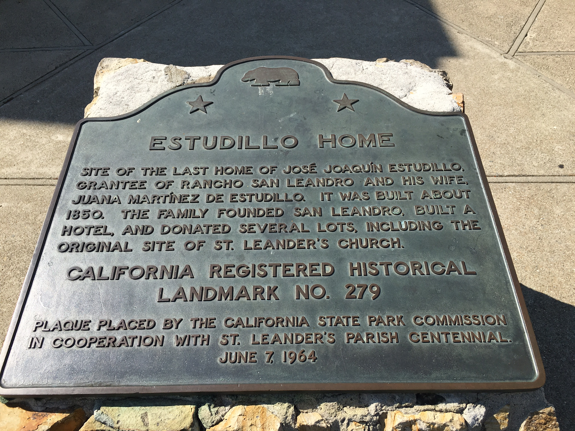 Photo of Plaque commemorating Estudillo Home in San Leandro, California